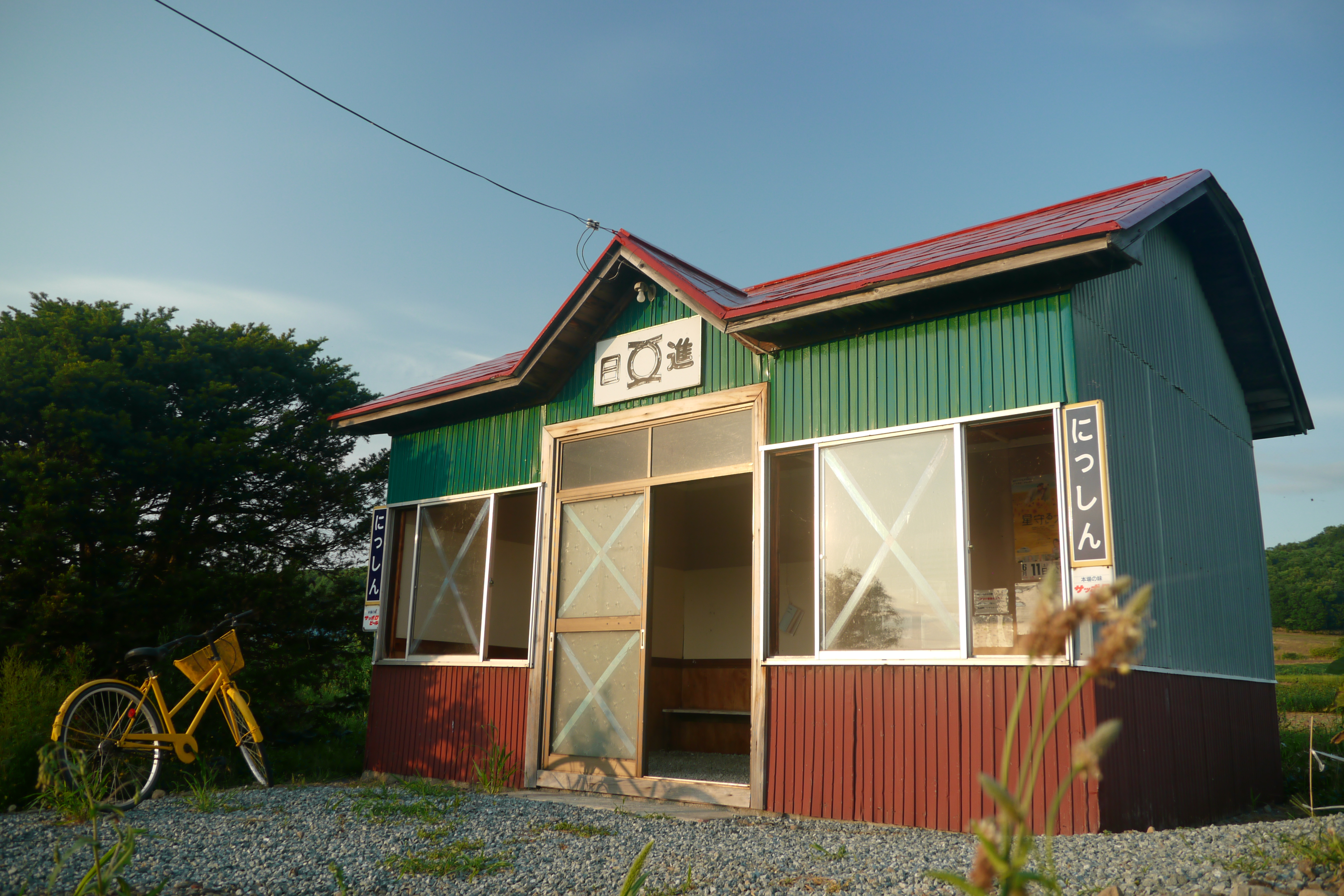 Station building of Nisshin Station in Nayoro, Hokkaido, Japan